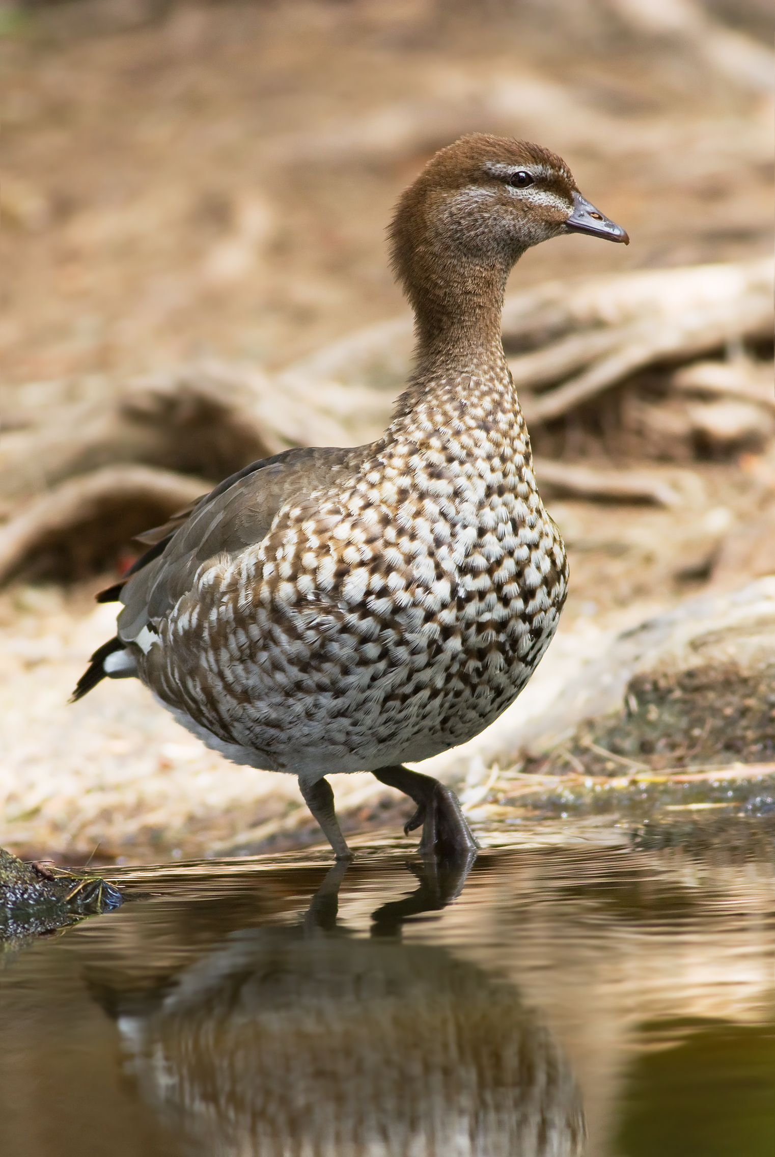 Photo of Jason woods, eyeing off denis redden, his only victim in a vicious display of spin/flight bowling. Walk back to the pavilion now champ.